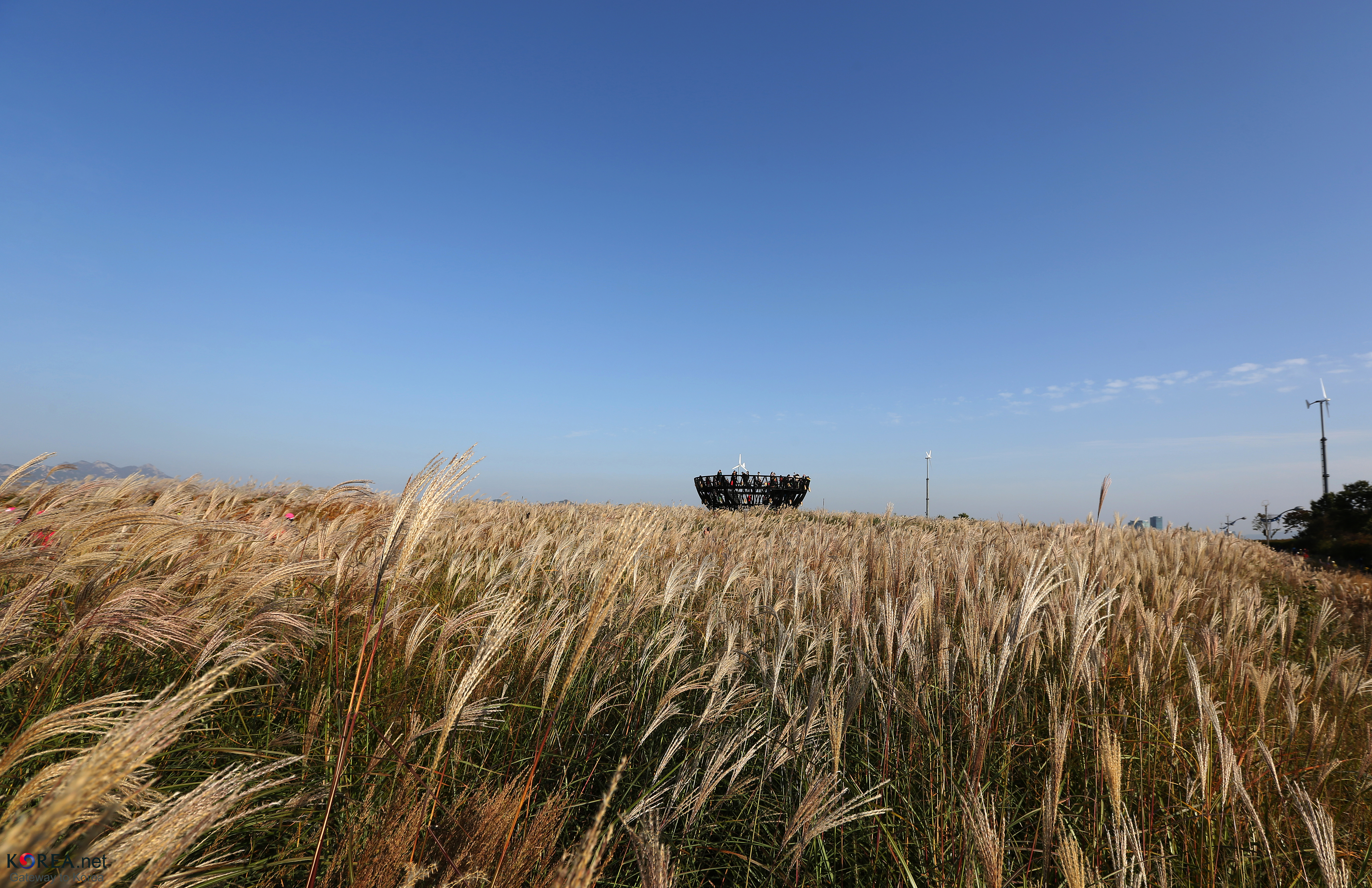 Sky Park, Sangam-dong, Seoul